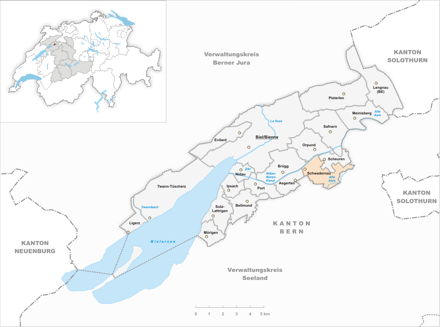 Municipality Schwadernau